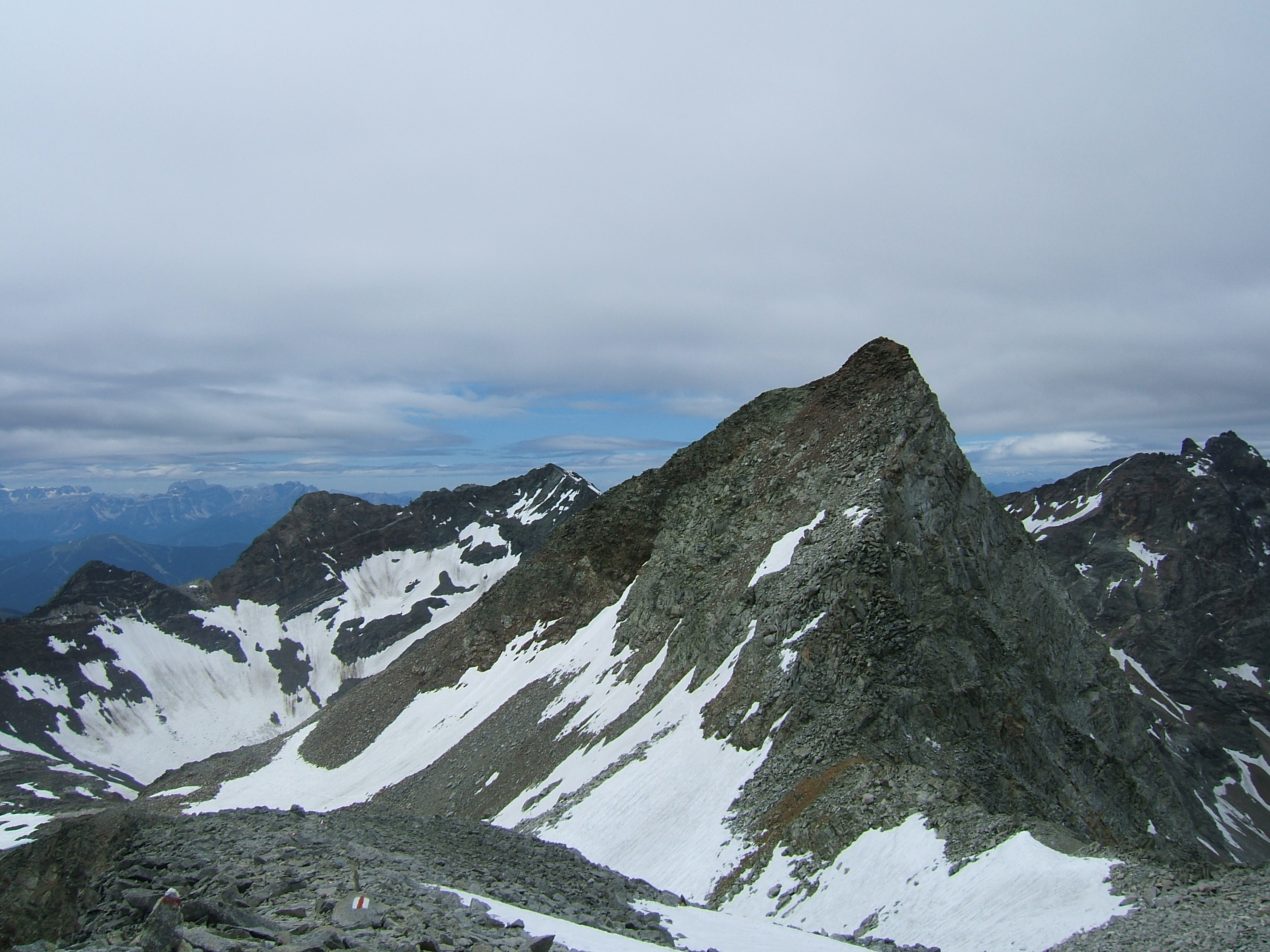 Gelttalspitze from northeast